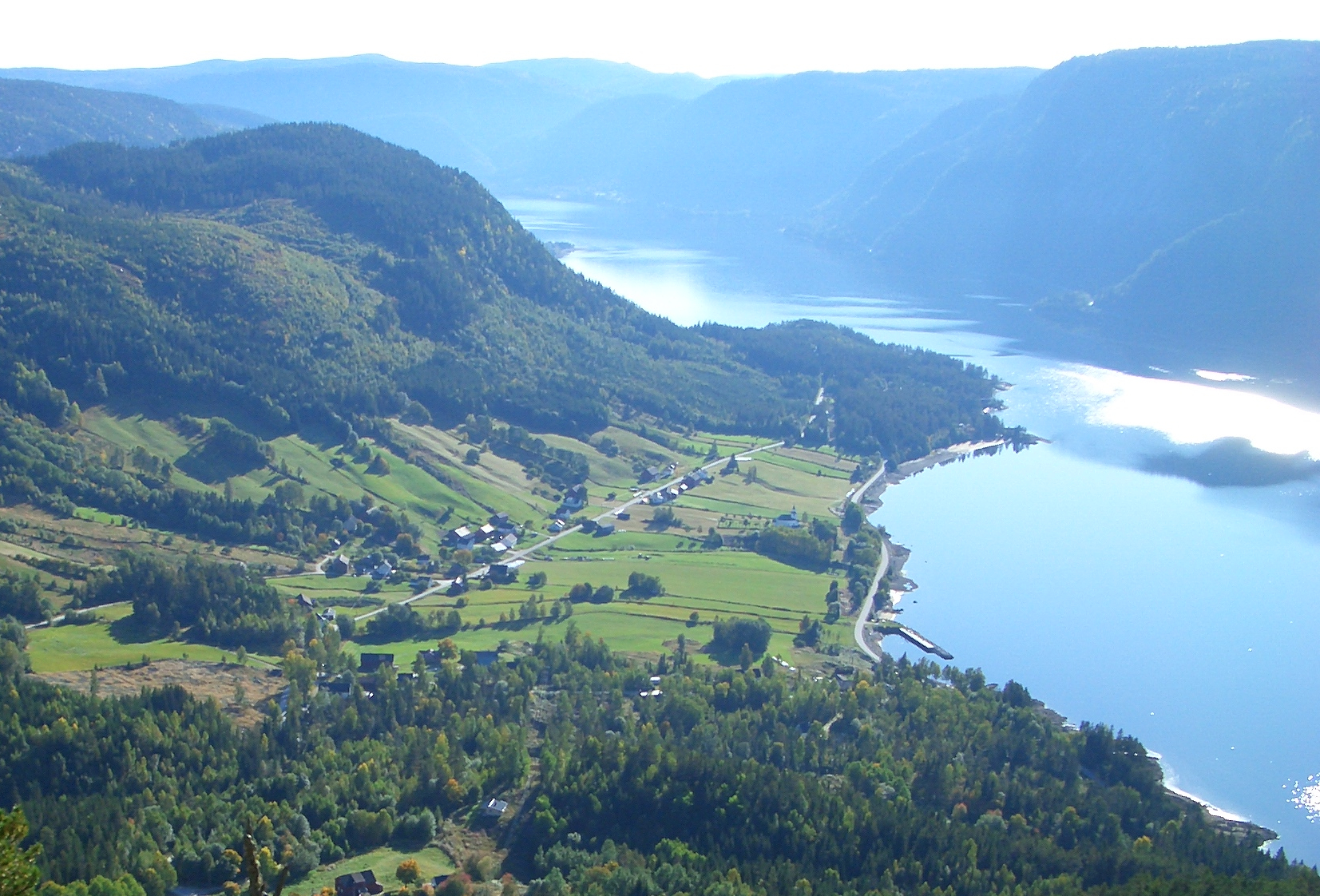 Åraksbø village (right) situated next to Åraksfjorden (left)